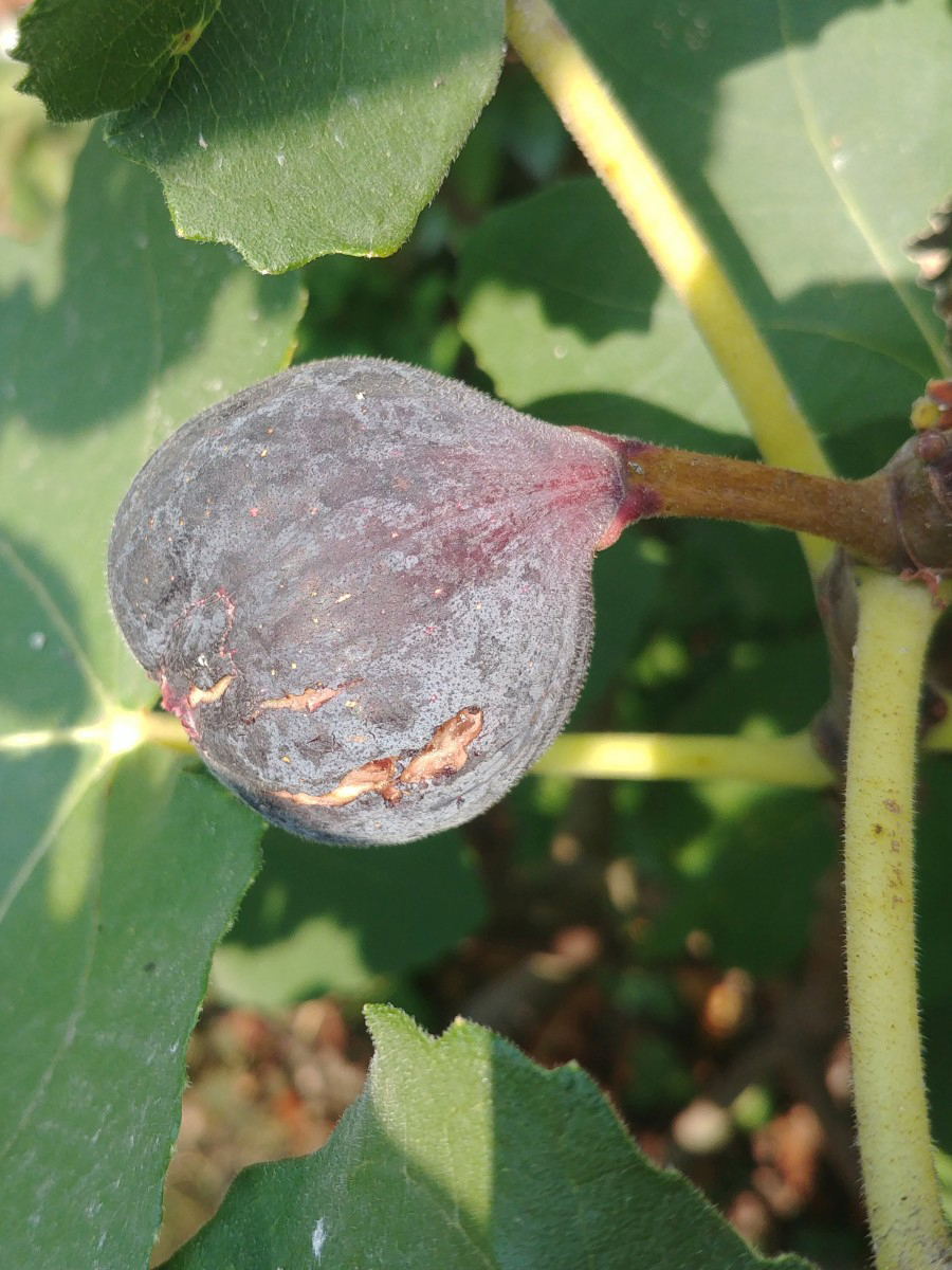 Main crop fig of the Ficus carica variety Pastilière in Vienna.